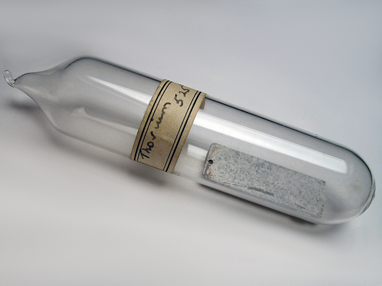 Thorium metal in ampoule, corroded